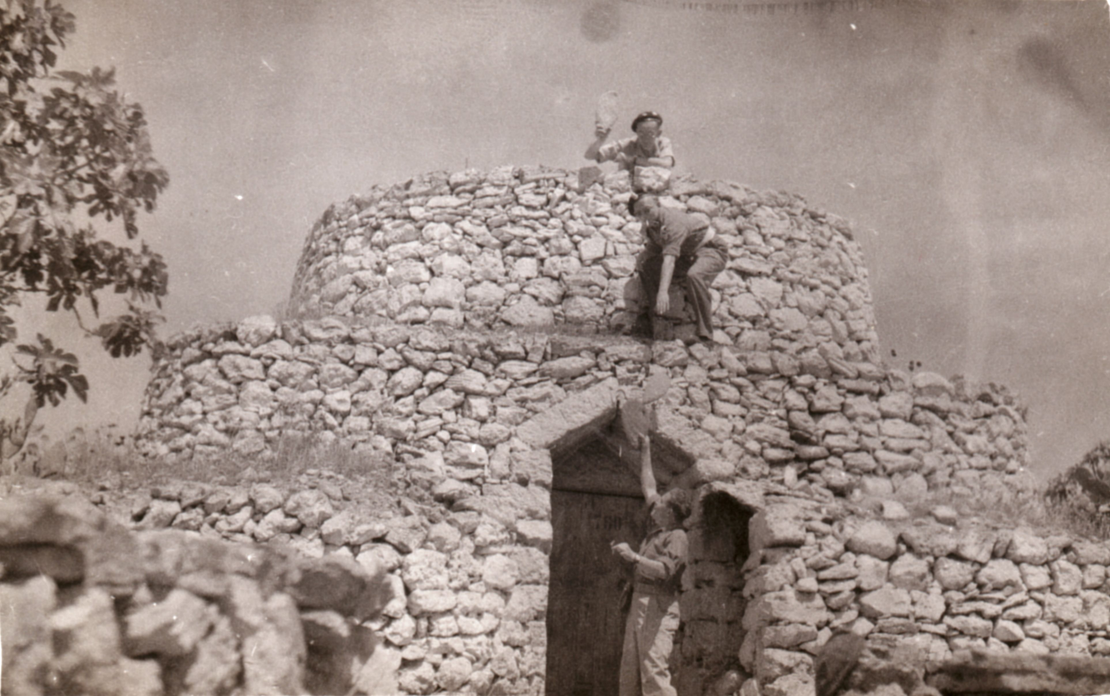 Polish II Corps soldiers fixing a Trullo in Casarano, in the province of Lecce, Italy. Possibly Campagna, Furneddhru.